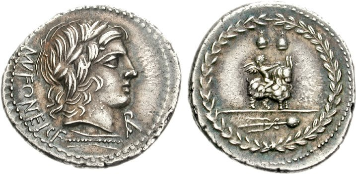 Mn. Fonteius C.f. 85 BC. AR Denarius (3.73 g, 10h). Rome mint. MN FONTEI C F behind, laureate head of Vejovis (or Apollo) right, wearing hair in loose locks; thunderbolt below; Roma monogram below chin / Infant winged Genius (or Cupid) seated on goat, standing right; caps of the Dioscuri above; thyrsus with fillet in exergue; all within laurel wreath. Crawford 353/1a var. (hair in ringlets); Sydenham 724 var. (same); Kestner 3107-3108; BMCRR Rome 2477; Fonteia 9 var. (same). Superb EF, handsome gold and gray toning. Perfect centering on both sides, struck on a broad flan.